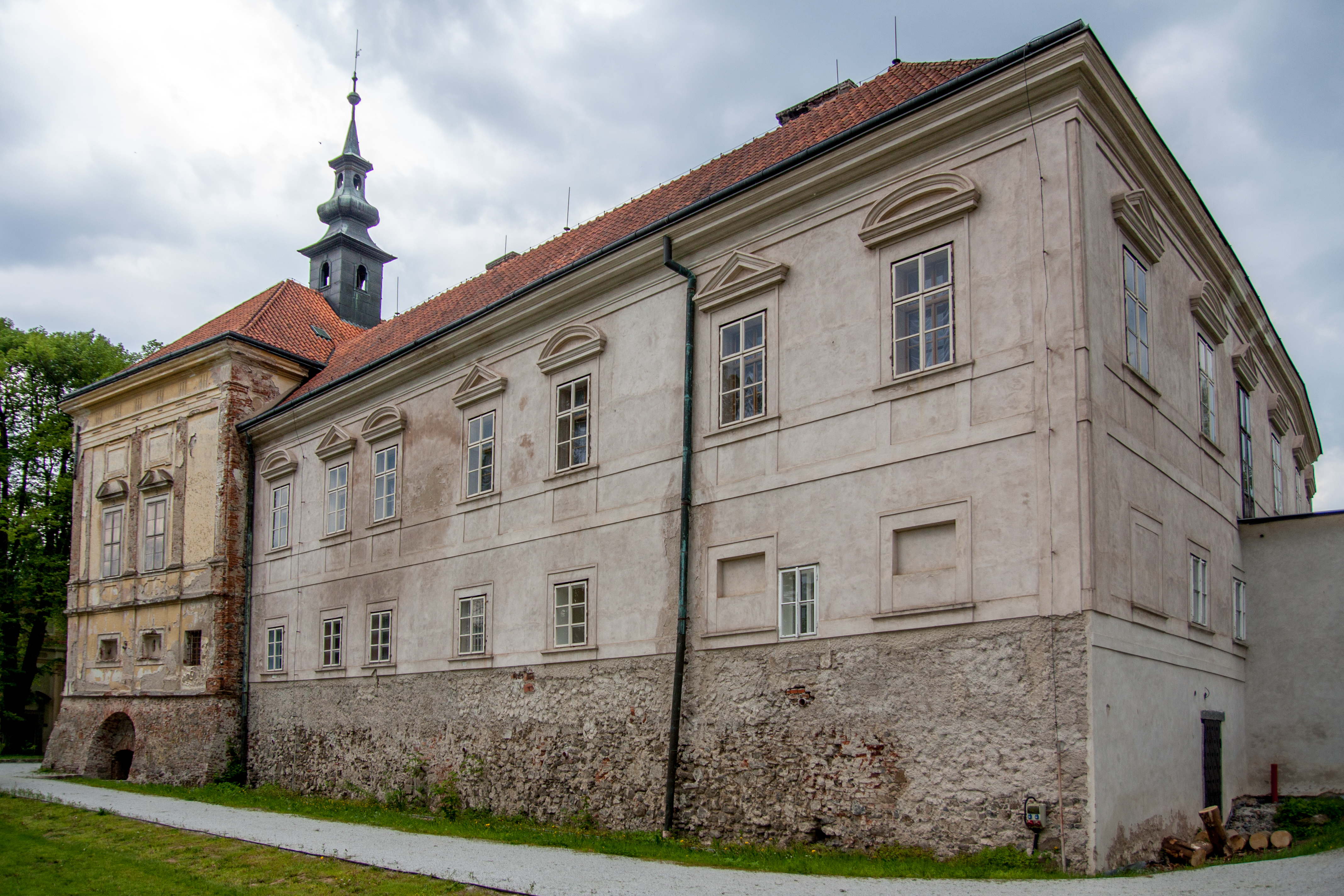 Castle in village Radíč, Příbram District, Central Bohemian Region, Czechia